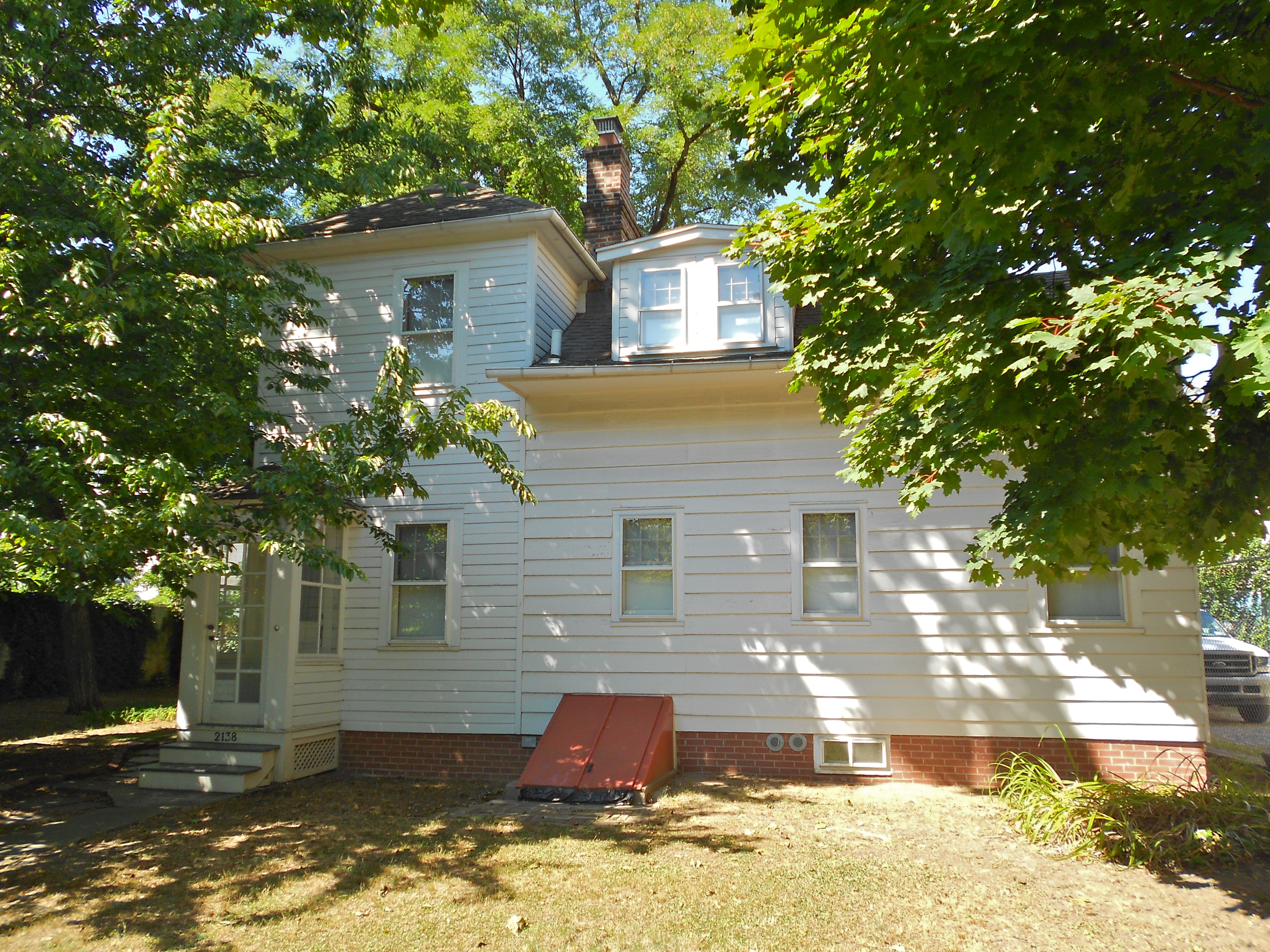 Hubbard House Listed on the NRHP on June 2, 2000 . At 2138 McDonald Ave., Brooklyn, New York.